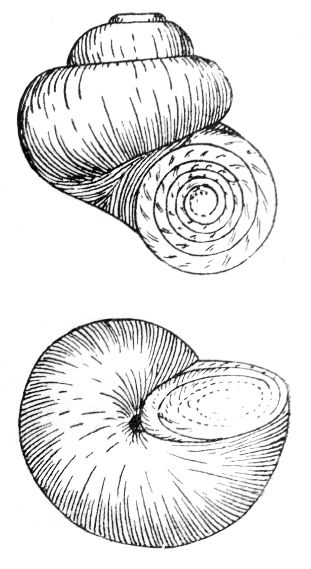 drawing of the shell of Valvata piscinalis